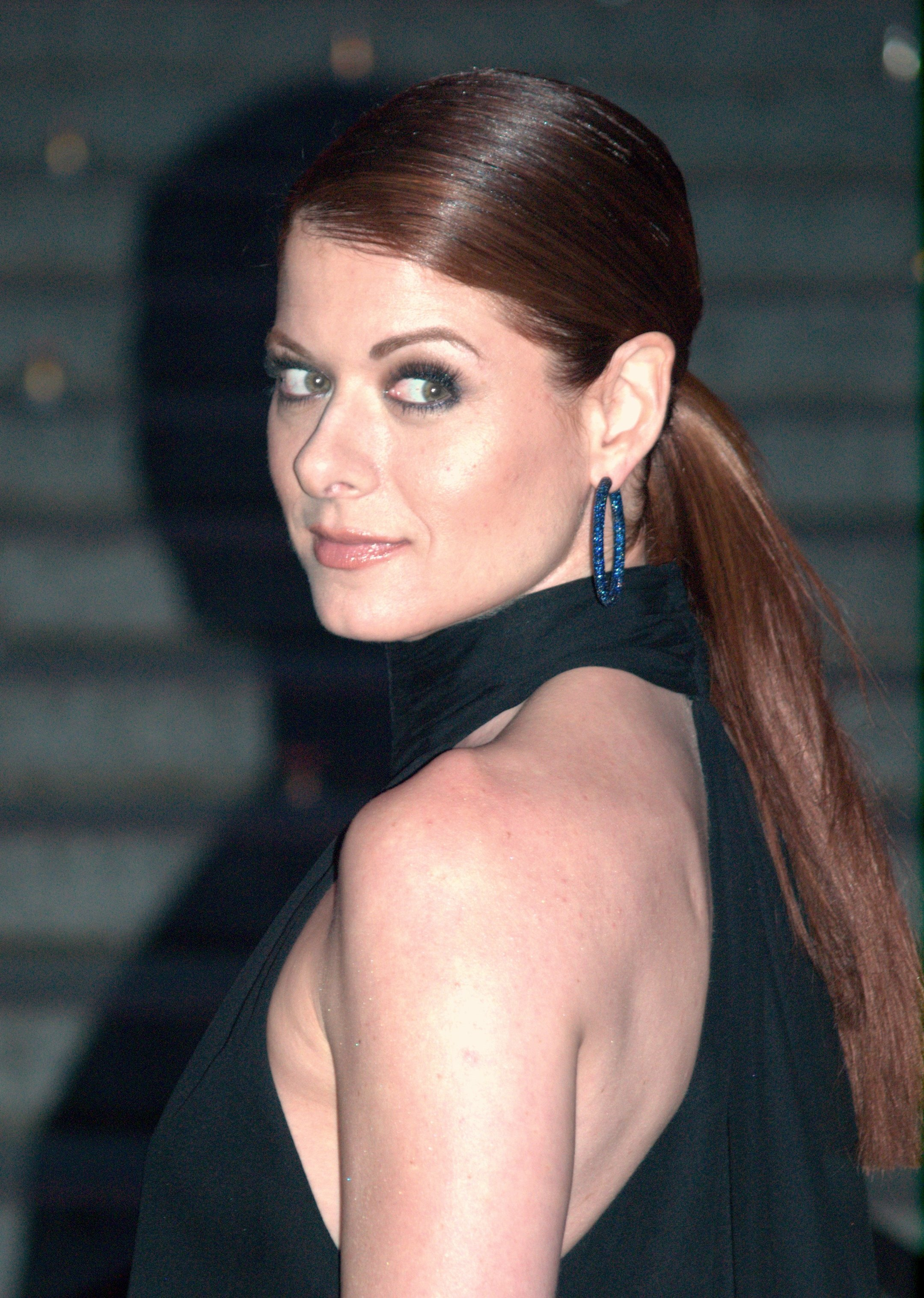 Debra Messing at the Vanity Fair kickoff part for the 2009 Tribeca Film Festival.